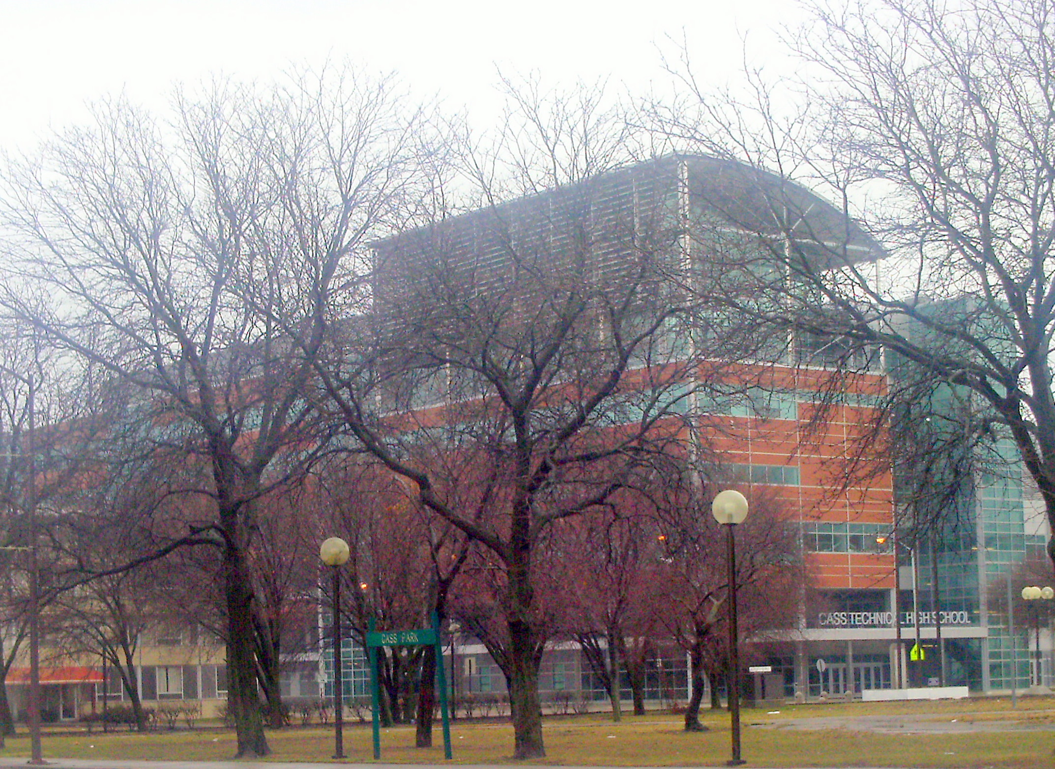 Cass Tech from Cass Park, Detroit, Michigan